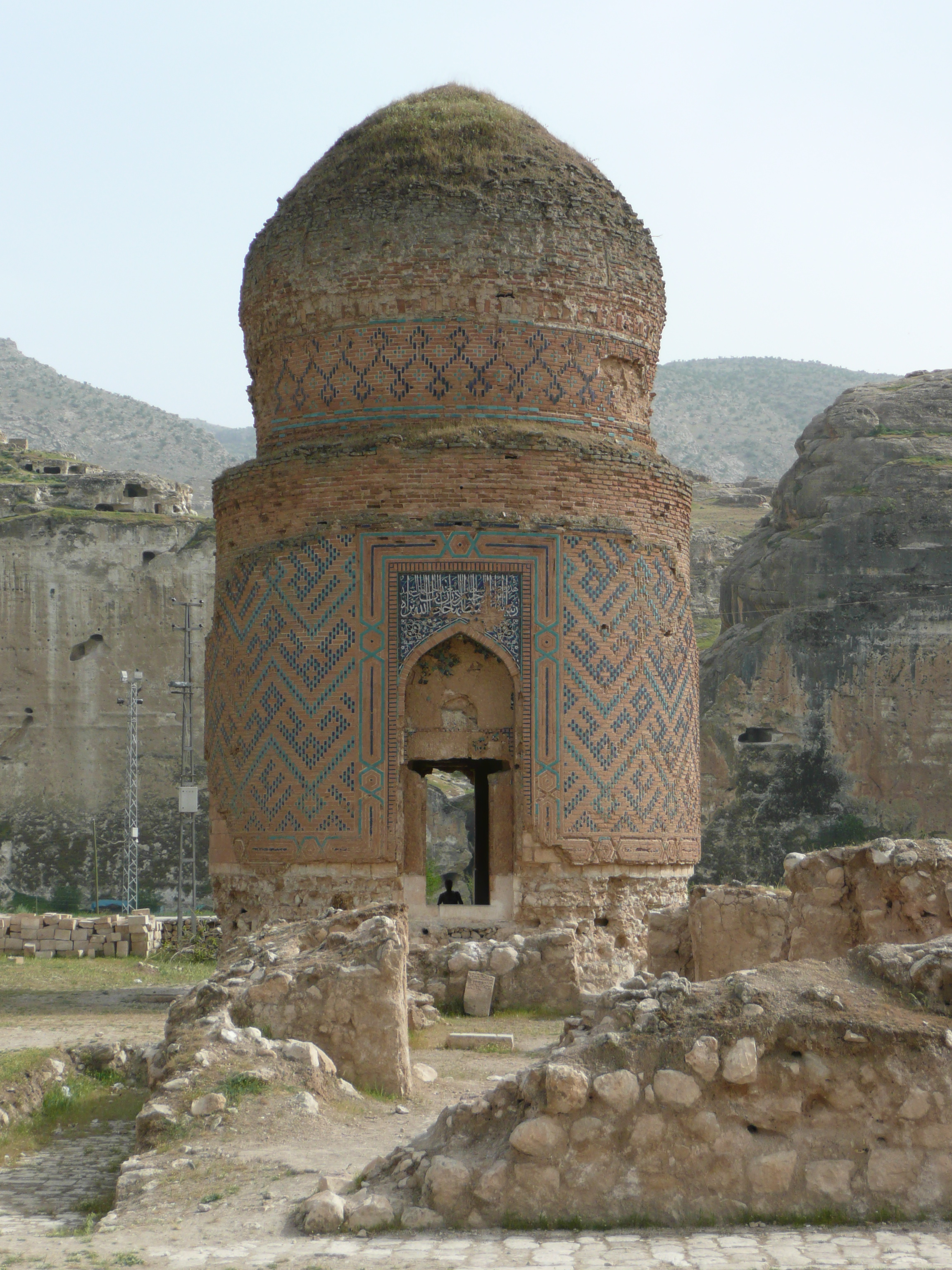 Photographs from Hasankeyf, Batman, Turkey - OpenStreetMap(Info)